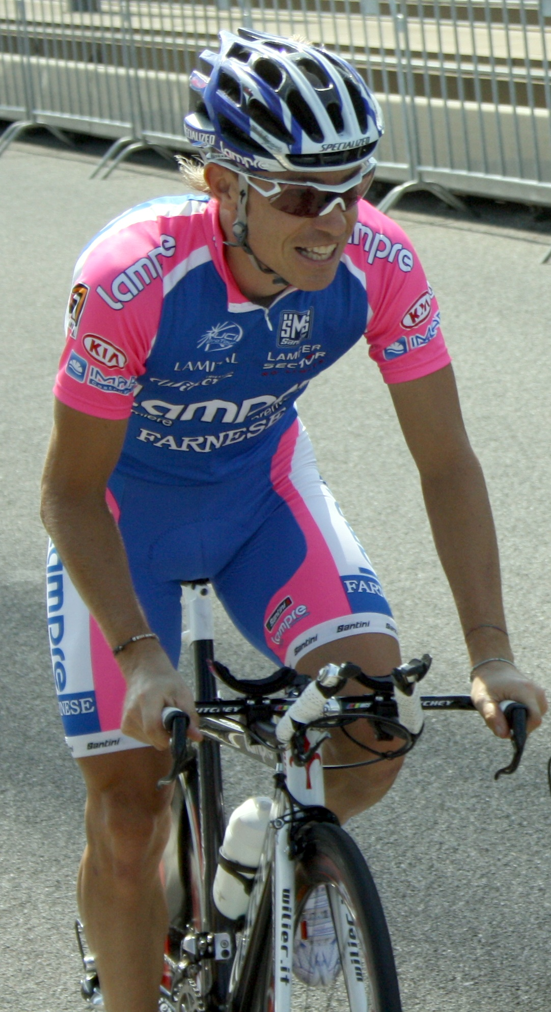 Damiano Cunego training for the prologue of the 2010 Tour de France in Rotterdam